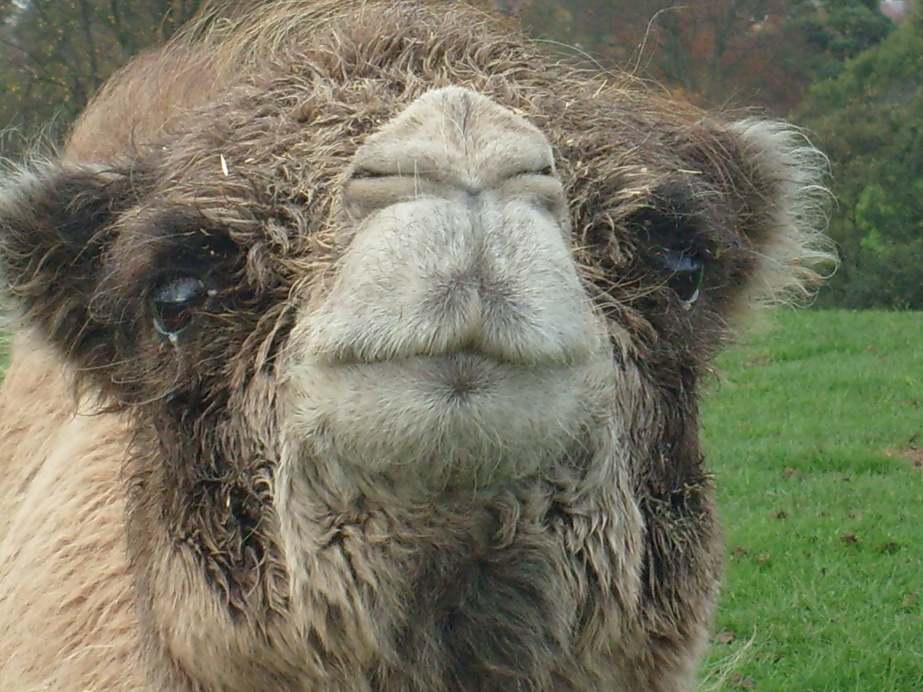 A camel at West Midlands Safari Park.